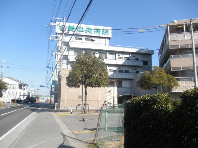 Inami chuo hospital